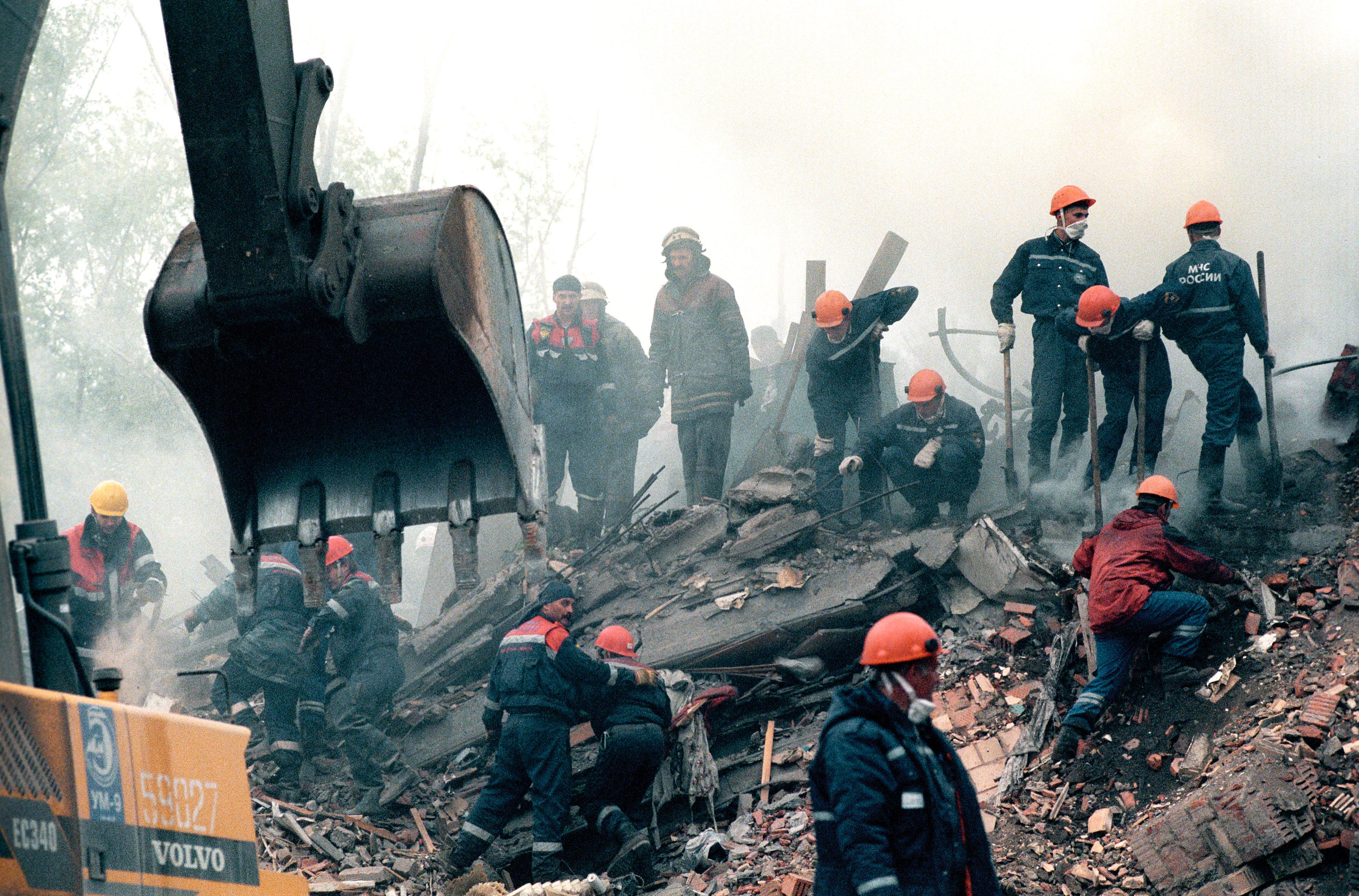 “Removing rubble at site of damaged apartment house on Kashira Highway”. Removing rubble at site of damaged apartment house on Kashira Highway.